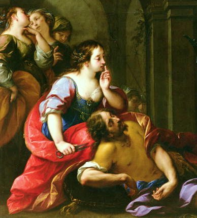 Delilah cutting Samson's hair